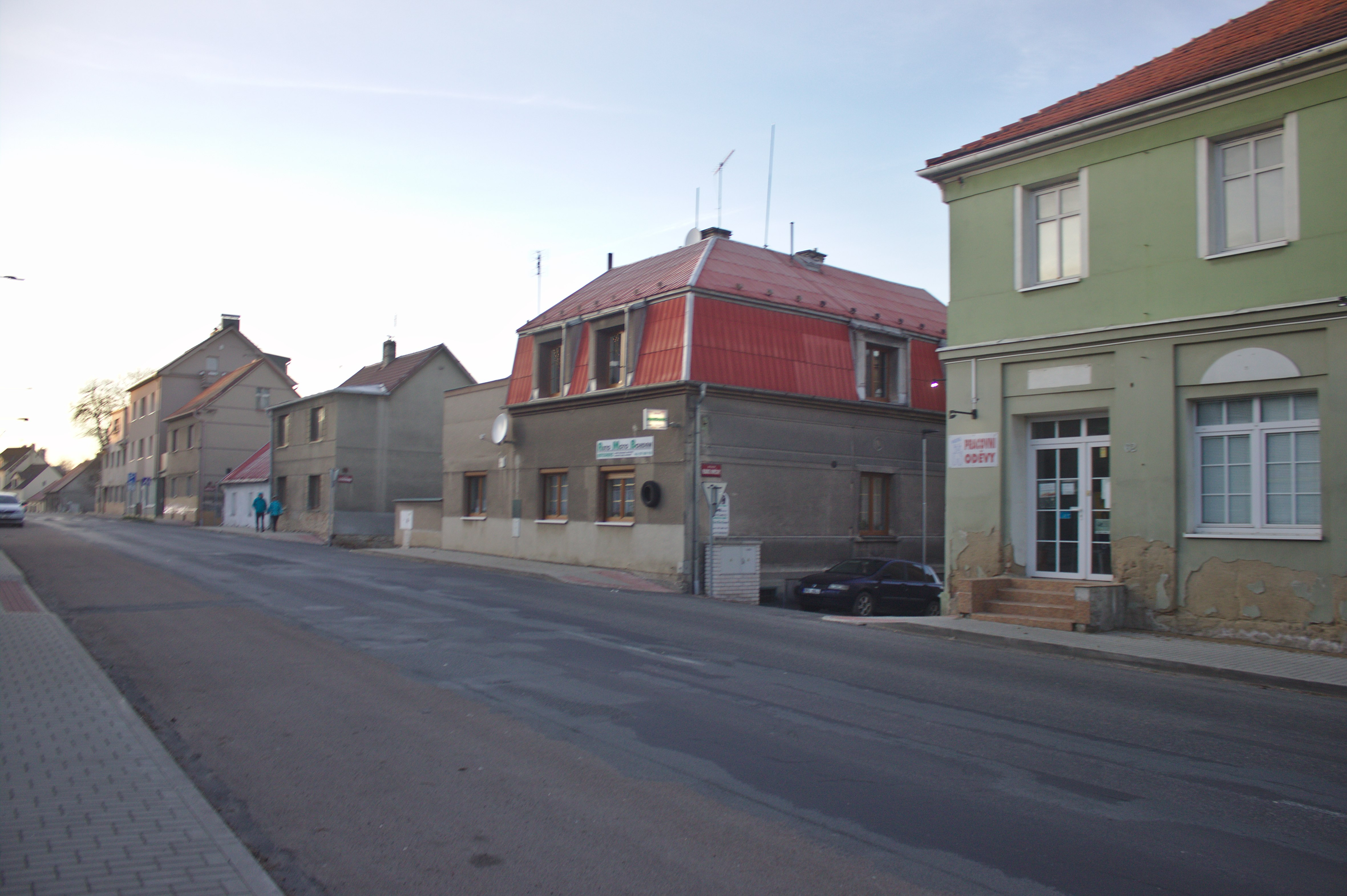 Main road in Kamenné Žehrovice, CZ Project: Fotíme Česko